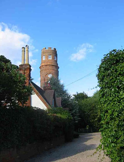 Strattons Folly from Bucks Alley, near Little Berkhamsted. The folly is indicated as tower on the old map